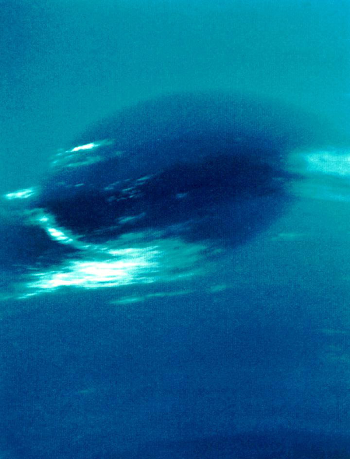 This photograph shows the last face-on view of the Great Dark Spot that Voyager will make with the narrow-angle camera. The image was shuttered 45 hours before closest approach at a distance of 2.8 million kilometers (1.7 million miles). The smallest structures that can be seen are of an order of 50 kilometers (31 miles). The image shows feathery white clouds that overlie the boundary of the dark and light blue regions. The pinwheel (spiral) structure of both the dark boundary and the white cirrus suggest a storm system rotating counterclockwise. Periodic small-scale patterns in the white cloud, possibly waves, are short-lived and do not persist from one Neptunian rotation to the next. This color composite was made from the clear and green filters of the narrow-angle camera. The Voyager Mission is conducted by JPL for NASA's Office of Space Science and Applications.